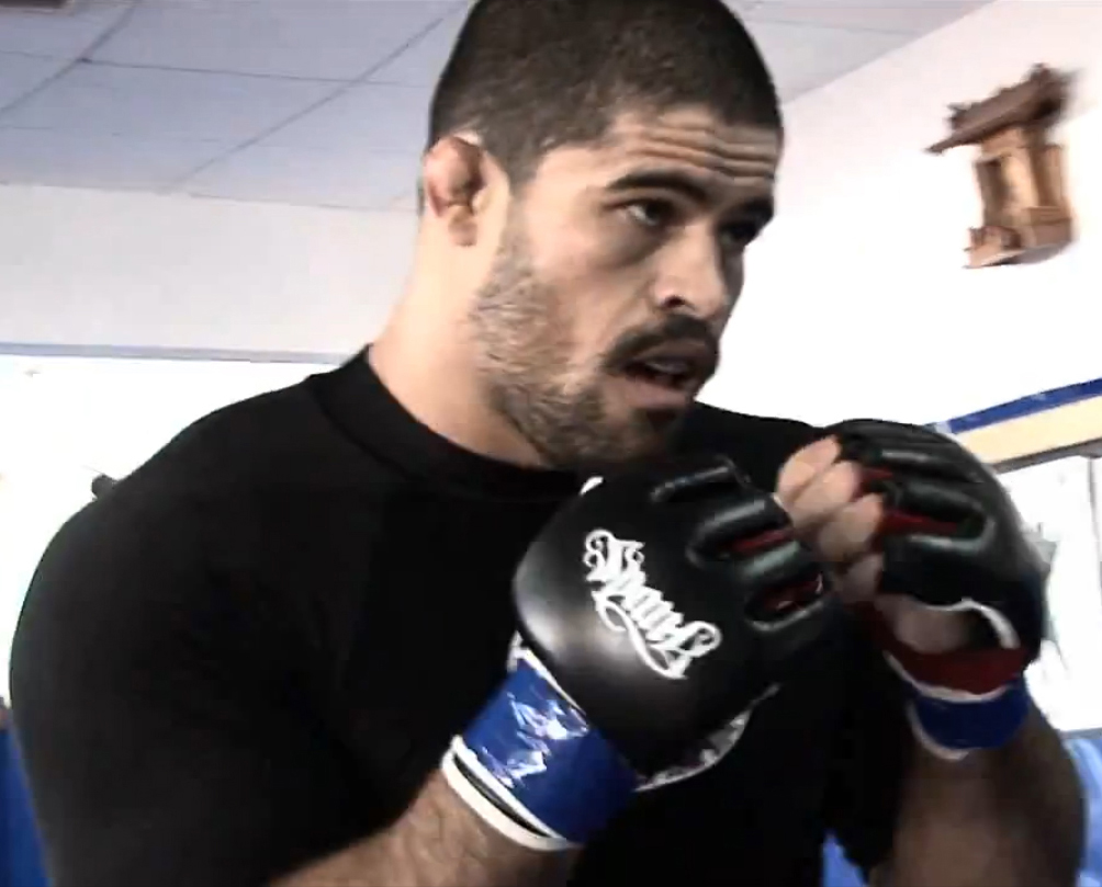 MMA Fighter